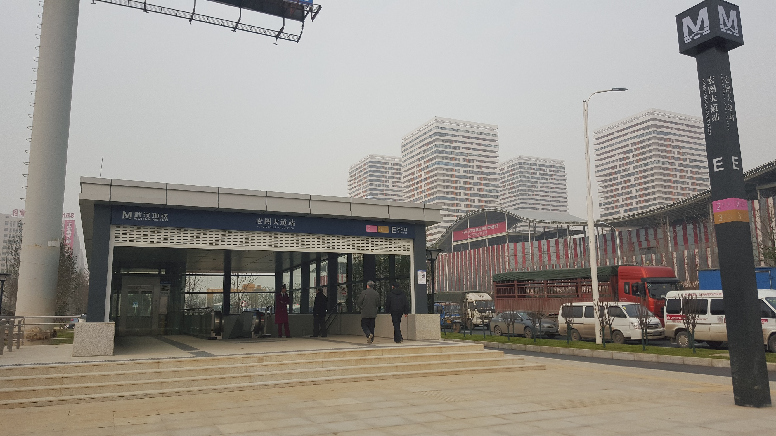 Entrance E of Hongtu Boulevard Station, Wuhan Metro